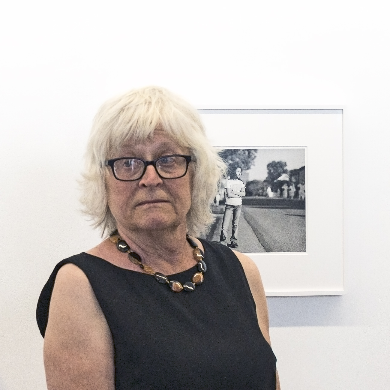 Photographer Judith Joy Ross at Zander Gallery, Köln/Cologne, 2017